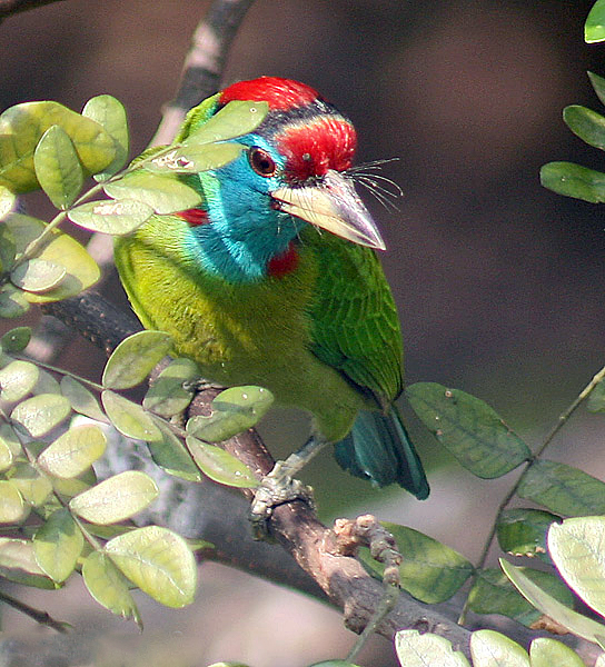 Blue-throated Barbet Megalaima asiatica in Kolkata, West Bengal, India.